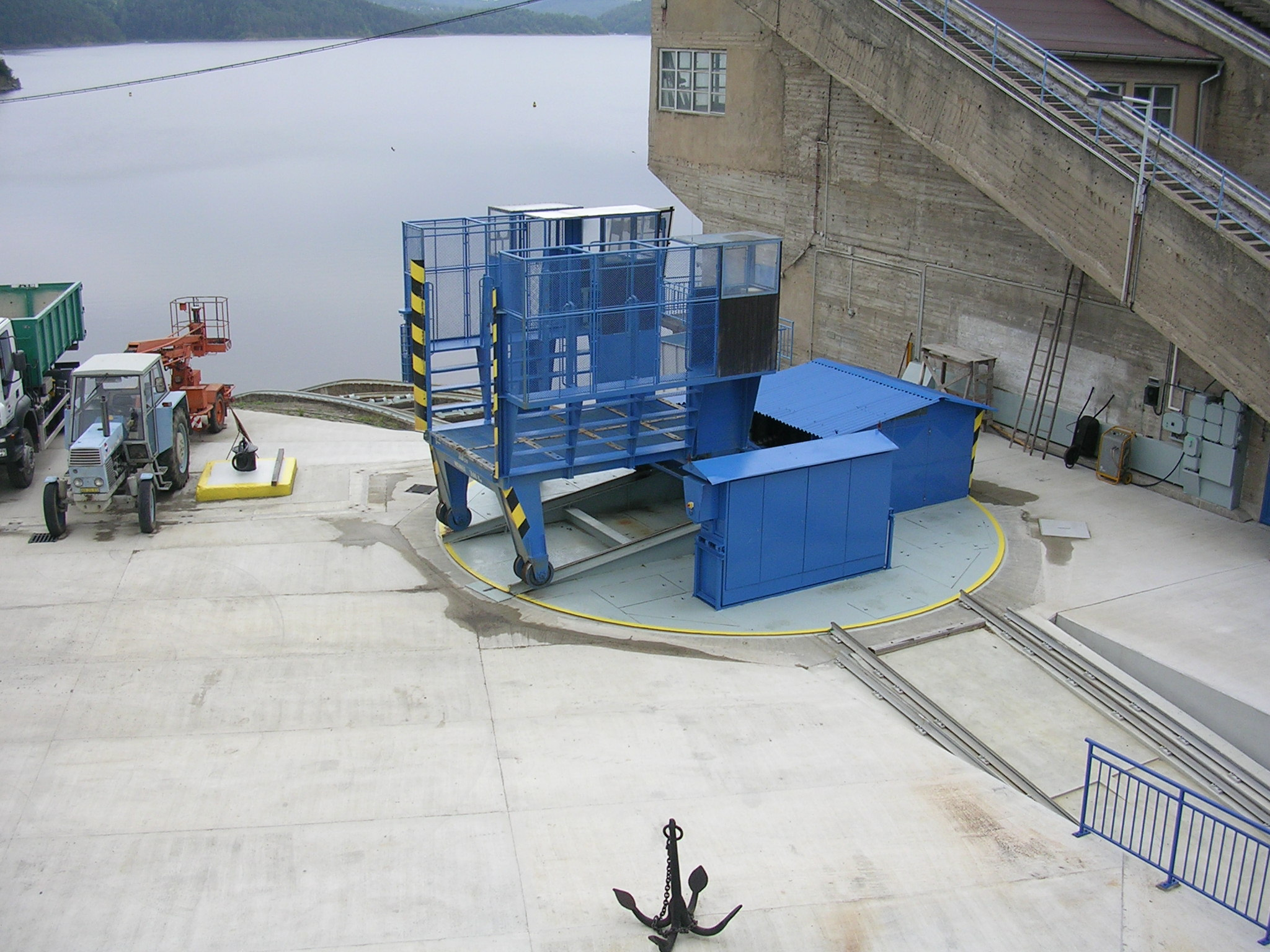 Boat lift. Orlík Dam, the Czech Republic.